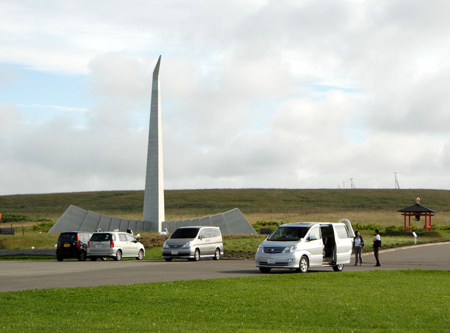 「祈禱之塔」是為了紀念1983年時在大韓航空班機遭擊落事件中喪生的受難者而設立的紀念碑The "Tower of Prayer" is a memorial for those who lost their lives in the accident of the KL007 flight shot down by Soviet fighter in 1983